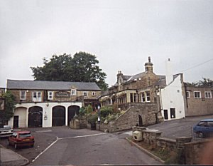 The Cross Sythes in Totley (Sheffield).